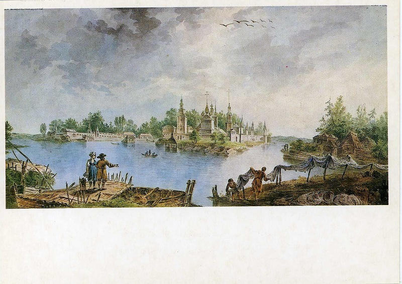 View of Nilov Monastery